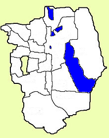 Noard townland and its four exclaves, coloured blue in Borrisleigh civil parish, North Tipperary